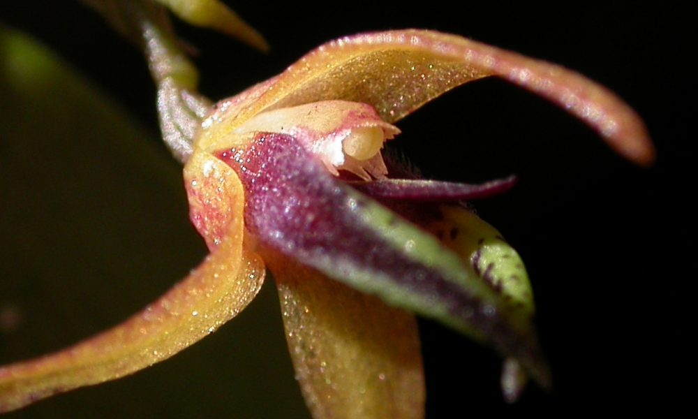 Anathallis tigridens